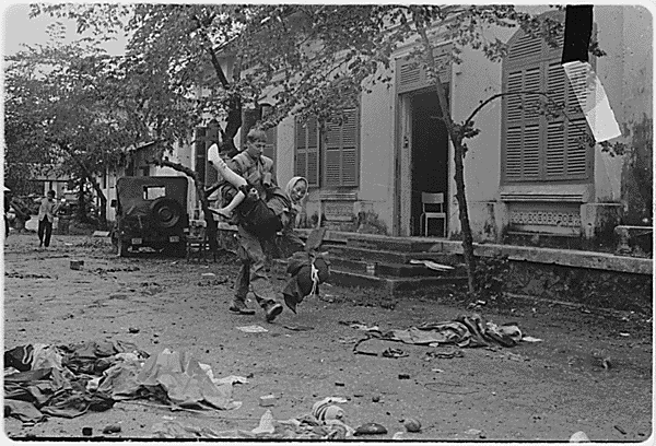 A grenadier from the 3rd Platoon, Company 2nd H, 2nd Battalion, 5th Marines, carries a Vietnamese woman from Hue Hospital to safety during the battle for Hue., 02/05/1968